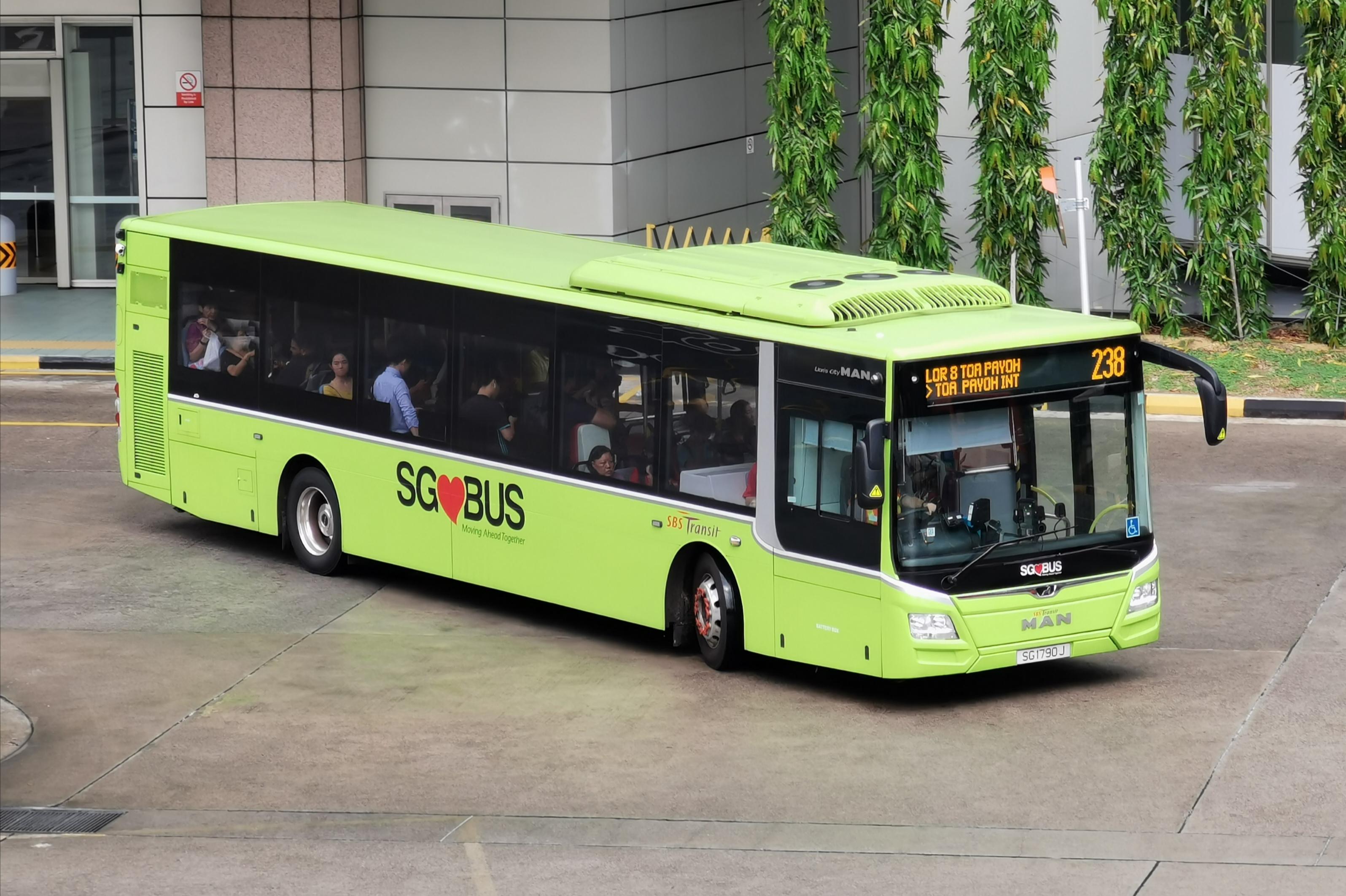 SBS Transit MAN NL323F (A22) - SG1790J 238 (1). This bus is leased from the Land Transport Authority under the Bus Contracting Model.